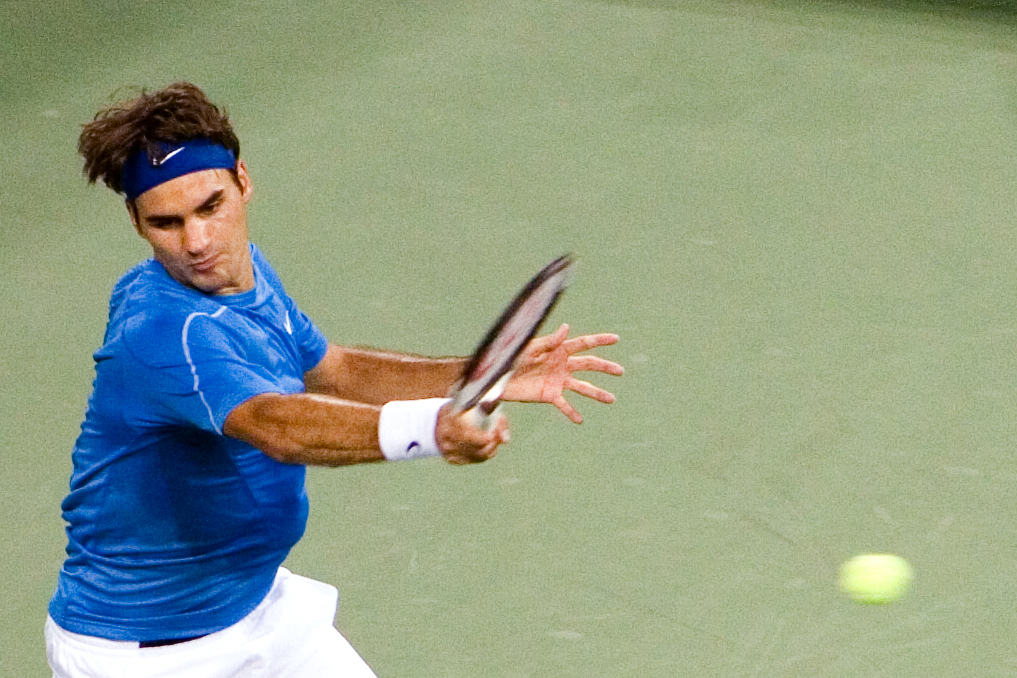 Federer playing James Blake in the quarterfinals of the 2006 US Open.